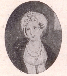 The Georgian Valide Sultan Nakşidil. Wife of Ottoman Sultan Abdul Hamid I, and mother of Sultan Mahmud II.